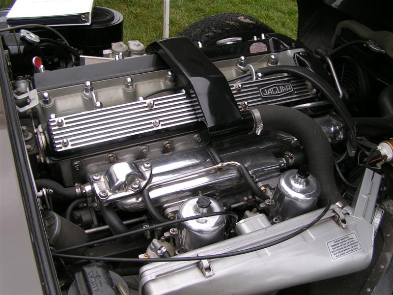 Jaguar Inline Six Engine